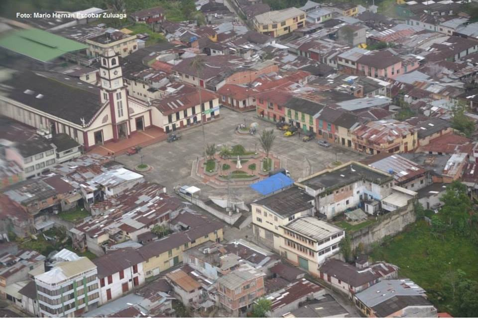 Herveo